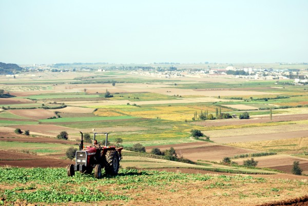 Farms around Aliabad-e Katul.